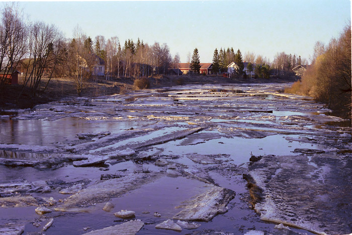 Kyrönjoki from Nikkolansilta bridge